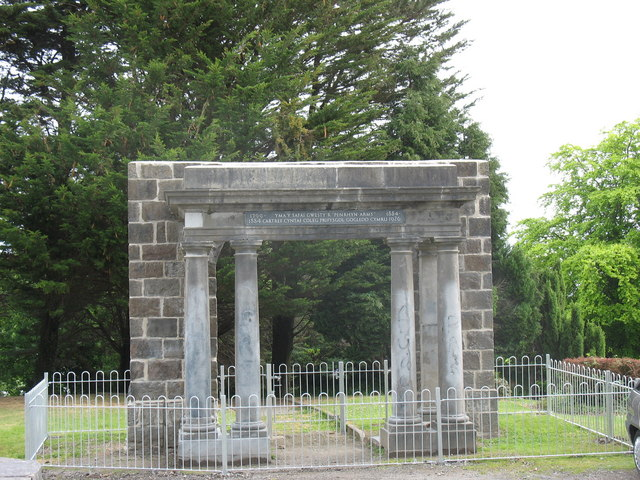 The pre 1926 site of the University College of Wales Bangor